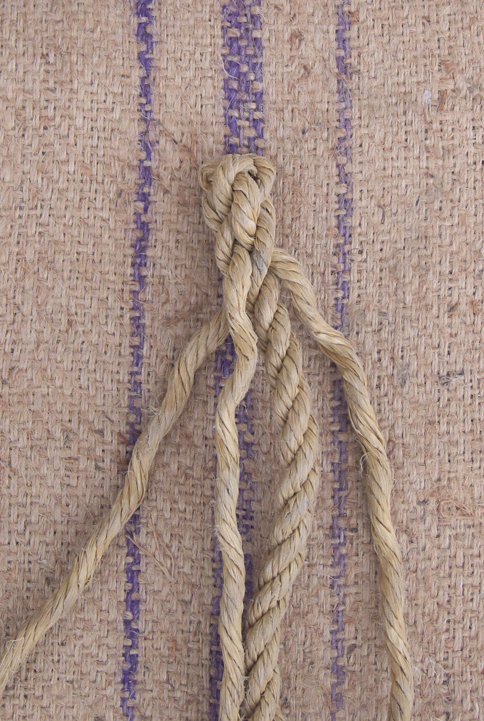 End splice waving